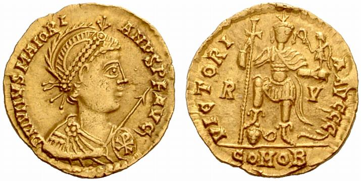 Majoran, 457-461, Solidus, Ravenna circa 457–461, AV 4.50 g. D N MAIORI – ANVS P F AVG Helmeted bust r., diademed, draped and cuirassed, holding spear pointing forward and shield bearing Christogram. Rev. VICTORI – A AVGGG Emperor standing facing, holding long cross and Victory on globe, foot on man-headed serpent; in field, R – V. In exergue, COMOB. C 1. RIC 2607. Depyrot 22/1. LRC 877 var. (MAIOR – IANVS). Lacam 9 (this coin).